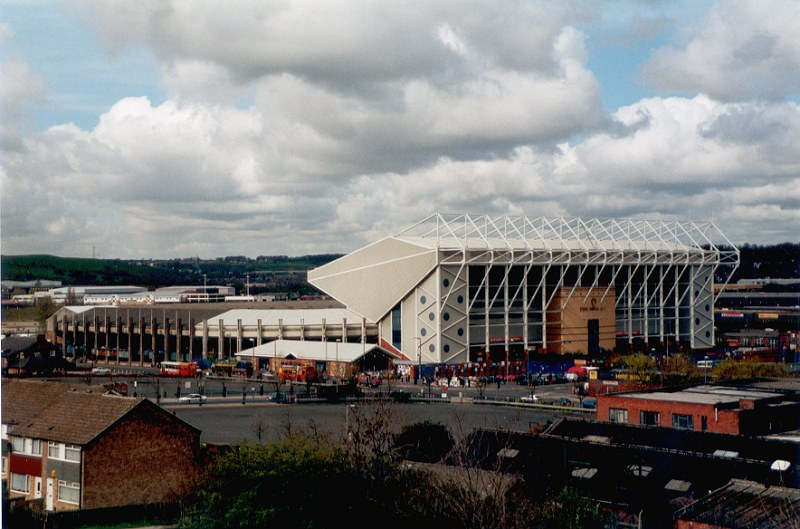 East Stand to the right, South Stand to the left.